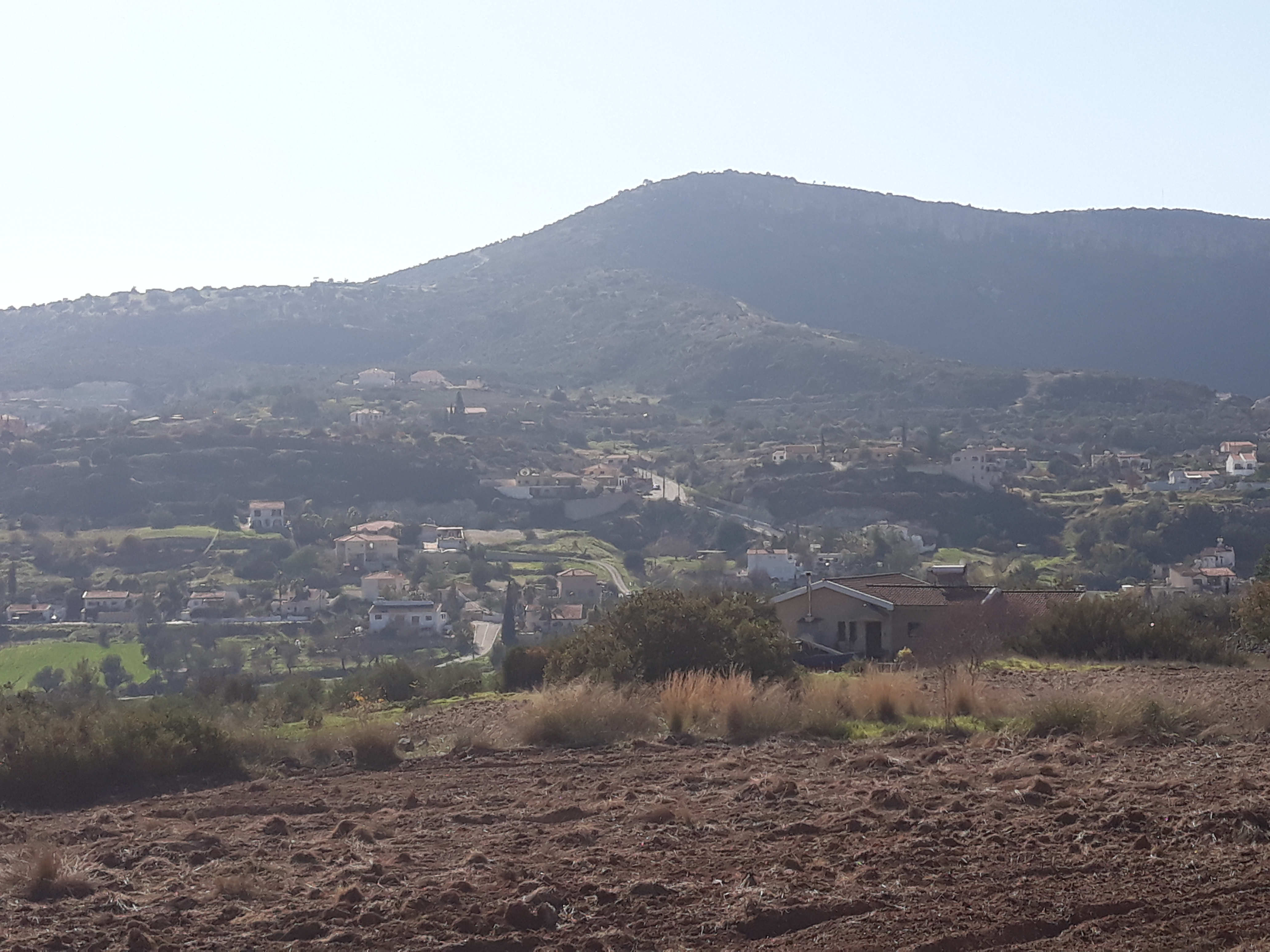 View of Foinikaria.